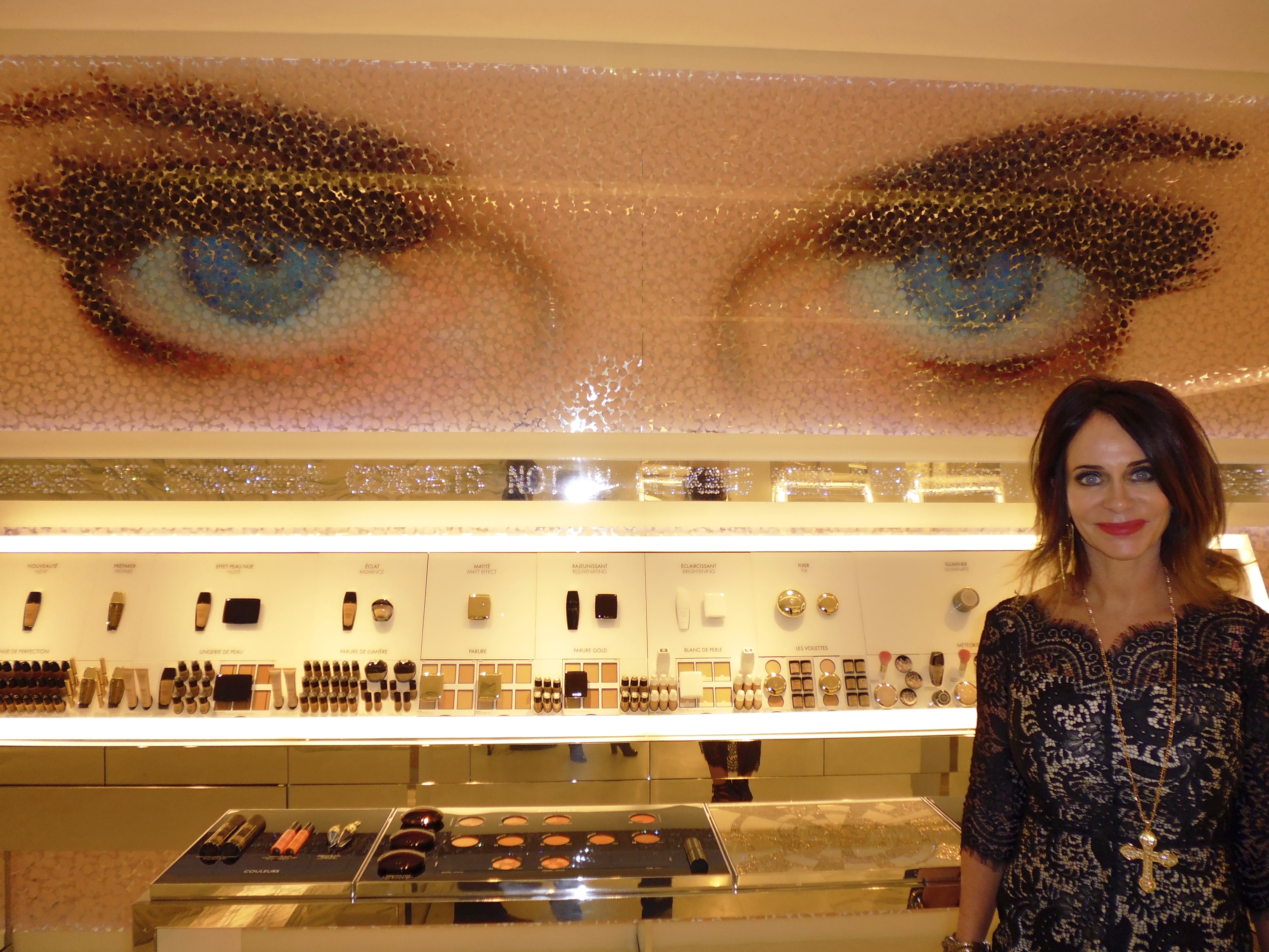 Jodi Shelton, President of GSA, poses next to Norbert Brunner's Eye Object / Magic Mirror, which she inspired and serves as model for.